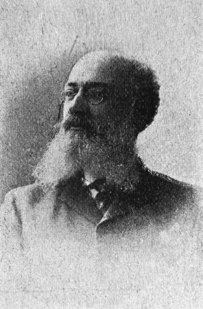 Solon Vlastos (1852-1927): Greek publisher